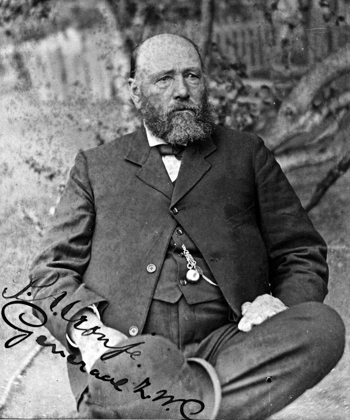 General Piet Cronjé (1836-1911), veteran general of the army of the South African Republic during the Second Boer War, taken prisoner by the British when he surrendered after losing the battle of Paardeberg on 27 February 1900. The photograph shows Cronjé as prisoner of war on Saint Helena where he remained until the conclusion of the war on 31 May 1902.